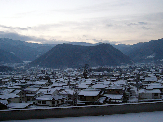 Mount Minakami (Minakamiyama) as seen from the northwest.